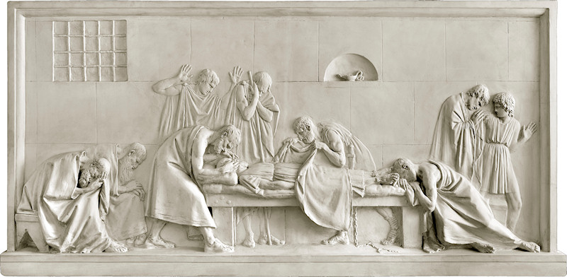 This is one of the three scenes devoted to the death of Socrates as narrated by Plato in Phaedo, for which Canova drew inspiration from Cesarotti’s translation, depicting them as a kind of layman’s Stations of the Cross. The artist does not indulge in narration, indeed, he eliminates all decorative elements and focuses entirely on tersely rendering the episode, with the intention of representing the classical spirit that is the well-spring of his art. The bas-relief was reproduced in an engraving by Pietro Fontana (engraver) and Joseph Collingnon (draughtsman): copperplate etching retouched with burin; 264 x 500 mm. Regarding the Rezzonico bas-reliefs, see entry for Justice.